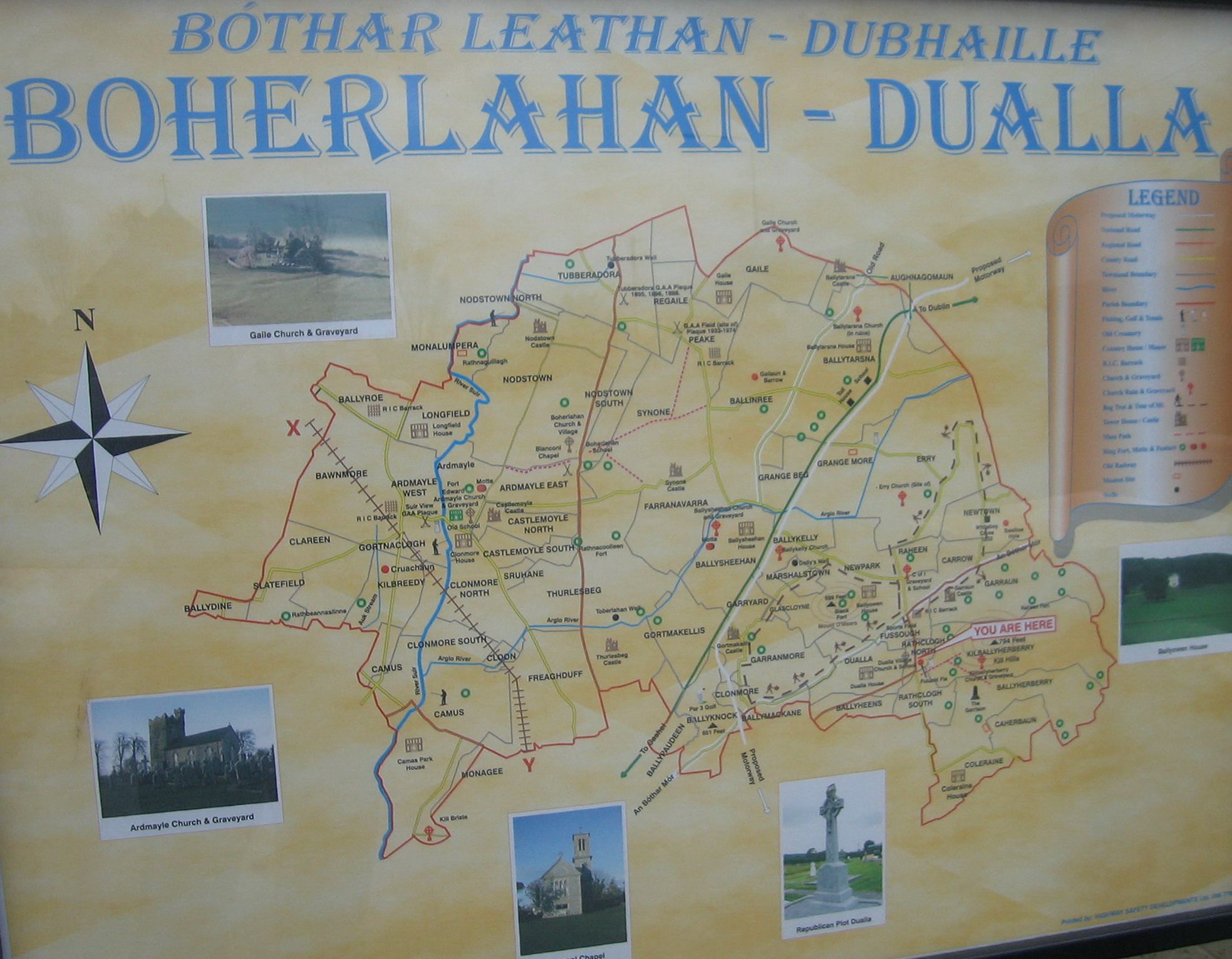 Boherlahan-Dualla tourist sign in Dualla village And I might add it is a pretty poor picture of the sign; I deliberately don't snap these sort of signs front-on in order to show their outdoor context - least they look like copies of copyright documents. (Sarah777 (talk) 09:42, 16 December 2007 (UTC))